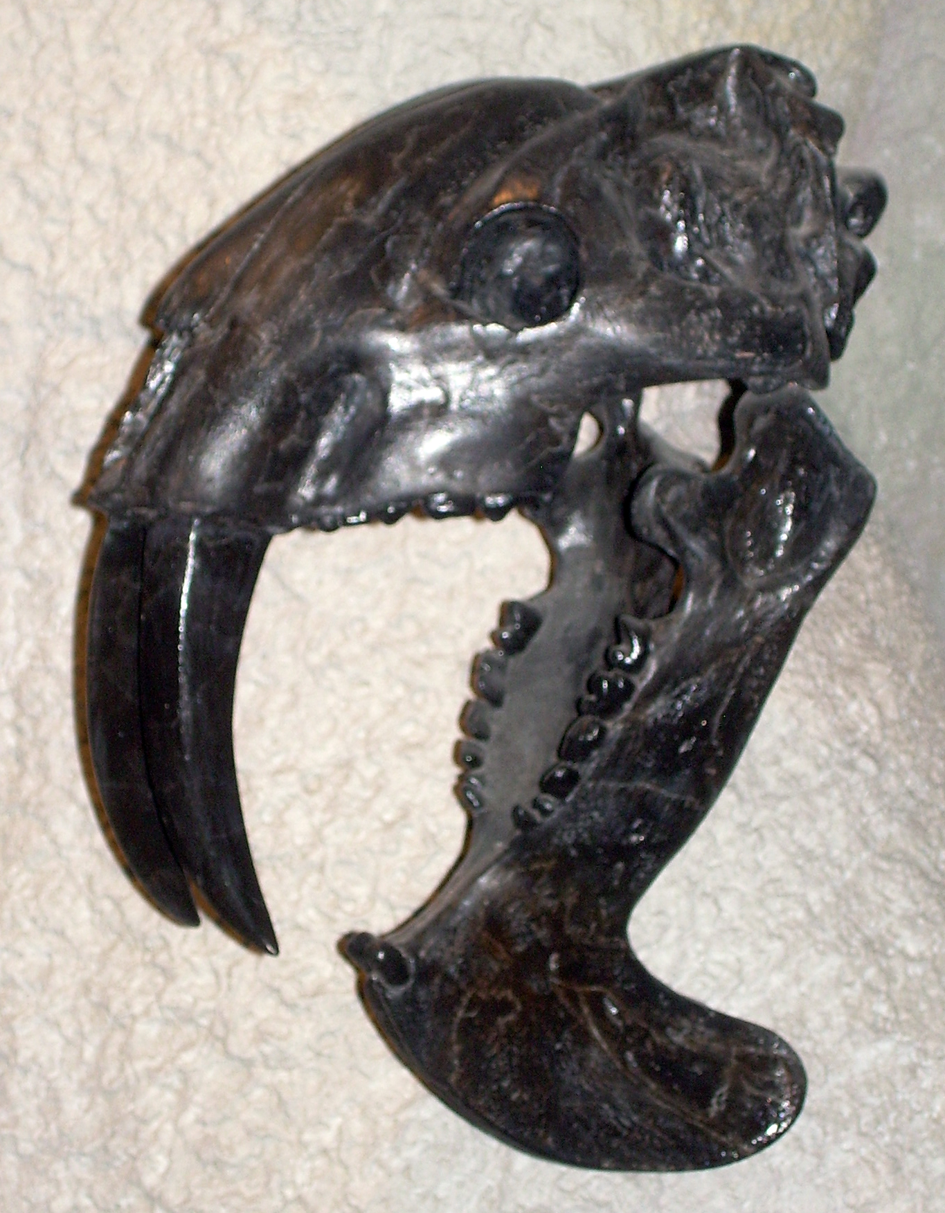 Photograph of a cast of a Thylacosmilus atrox skull taken at the North American Museum of Ancient Life.